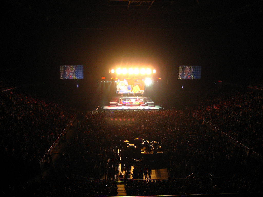 Scherzinger, 2009.